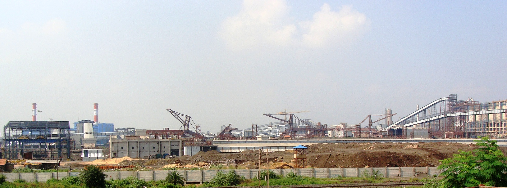 modernization of ISP